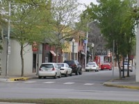 Corner of Buchanan Street and Boyd, Norman, OK.